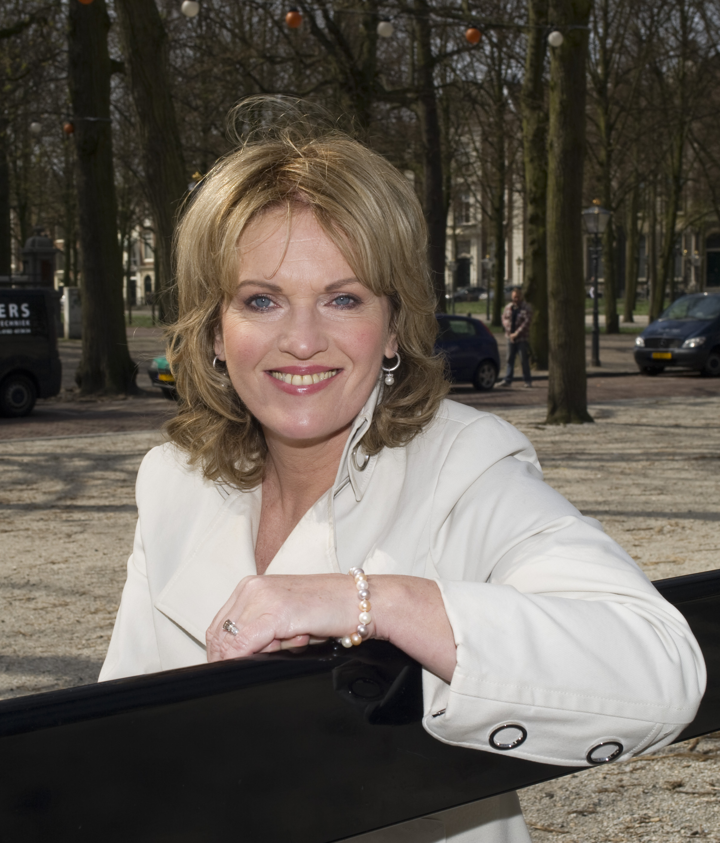 Picture from Pia Dijkstra.